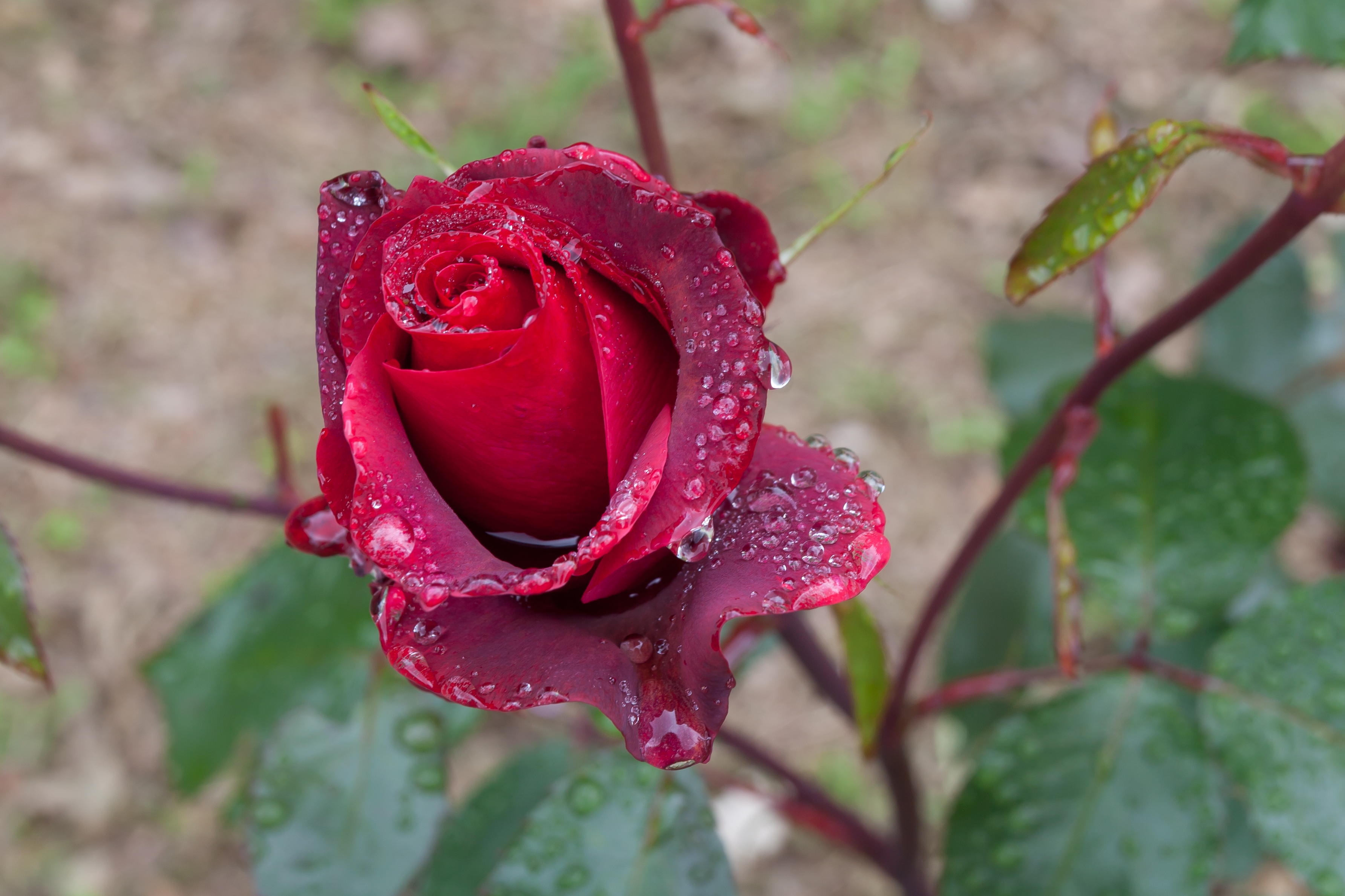 Surface tension of water on a rose. Oroso, GaliciaGalego: A tensión superficial da auga sobre unha rosa. Oroso, Galiza